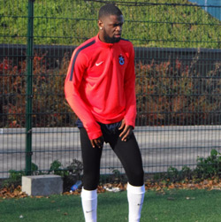 2016-2017 at Trabzonspor